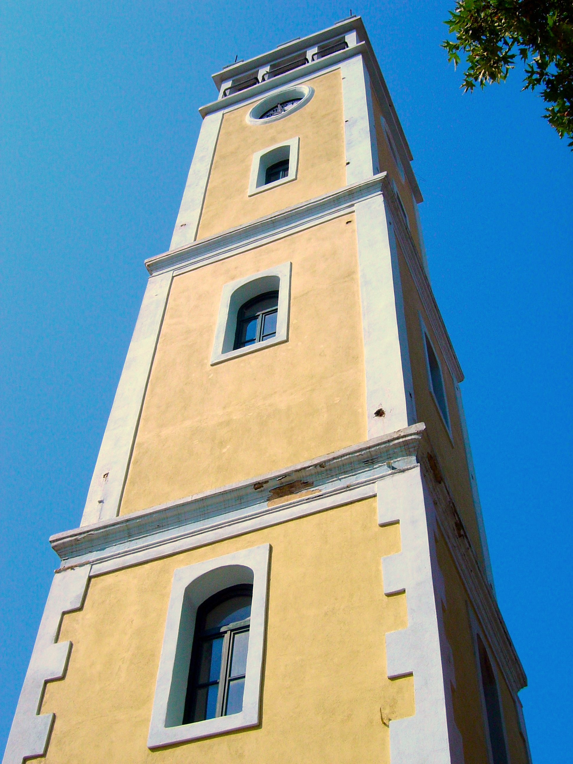 The Clock Tower of Komotini, Vahe Gkoumousian